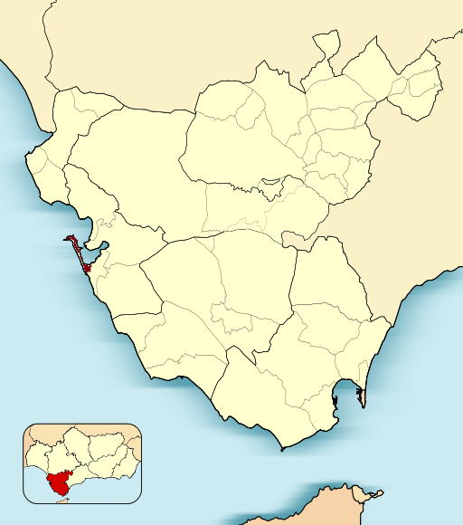 Municipal locator